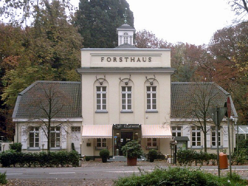 Forsthaus, Forstwald, Krefeld, Germany